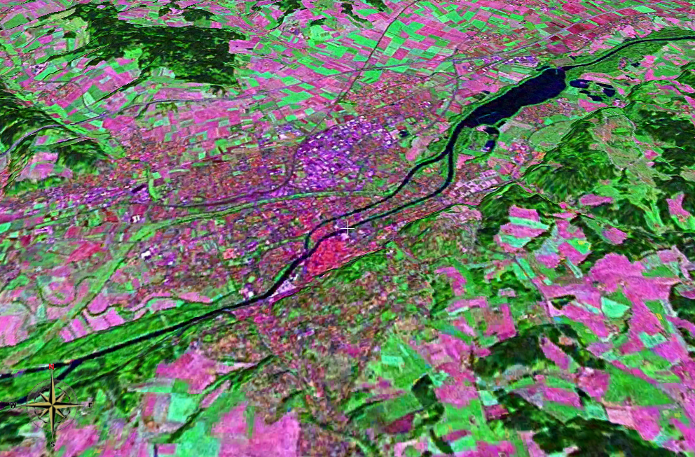 Landsat 2000 satellite image of Landshut, Lower Bavaria, Germany heading north, using NASA Worldwind software; Latitude:48.54064°N, Longitude:12.15672°E Tilt: 45°